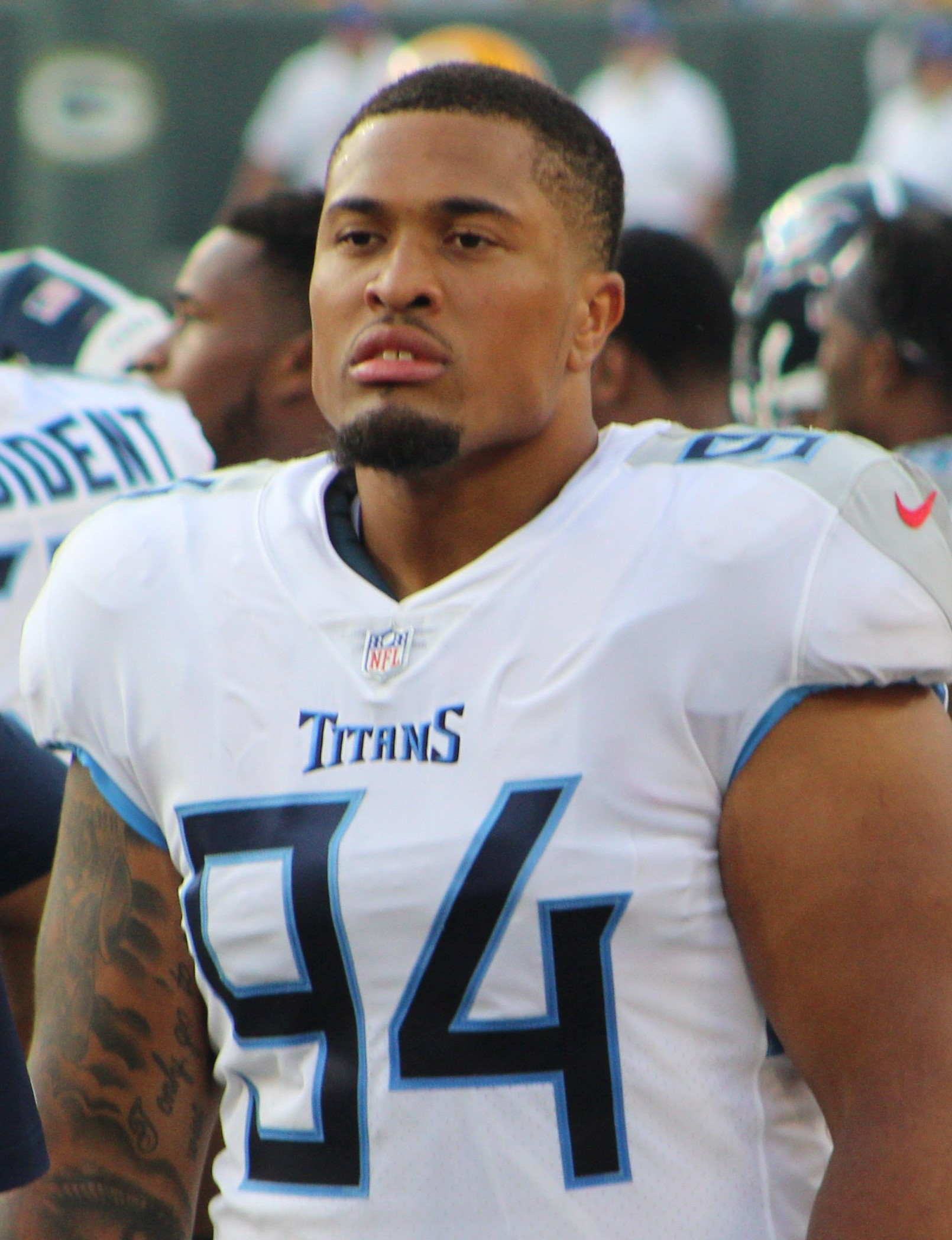 Austin Johnson, Tennessee Titans at Green Bay Packers (Preseason), August 9, 2018